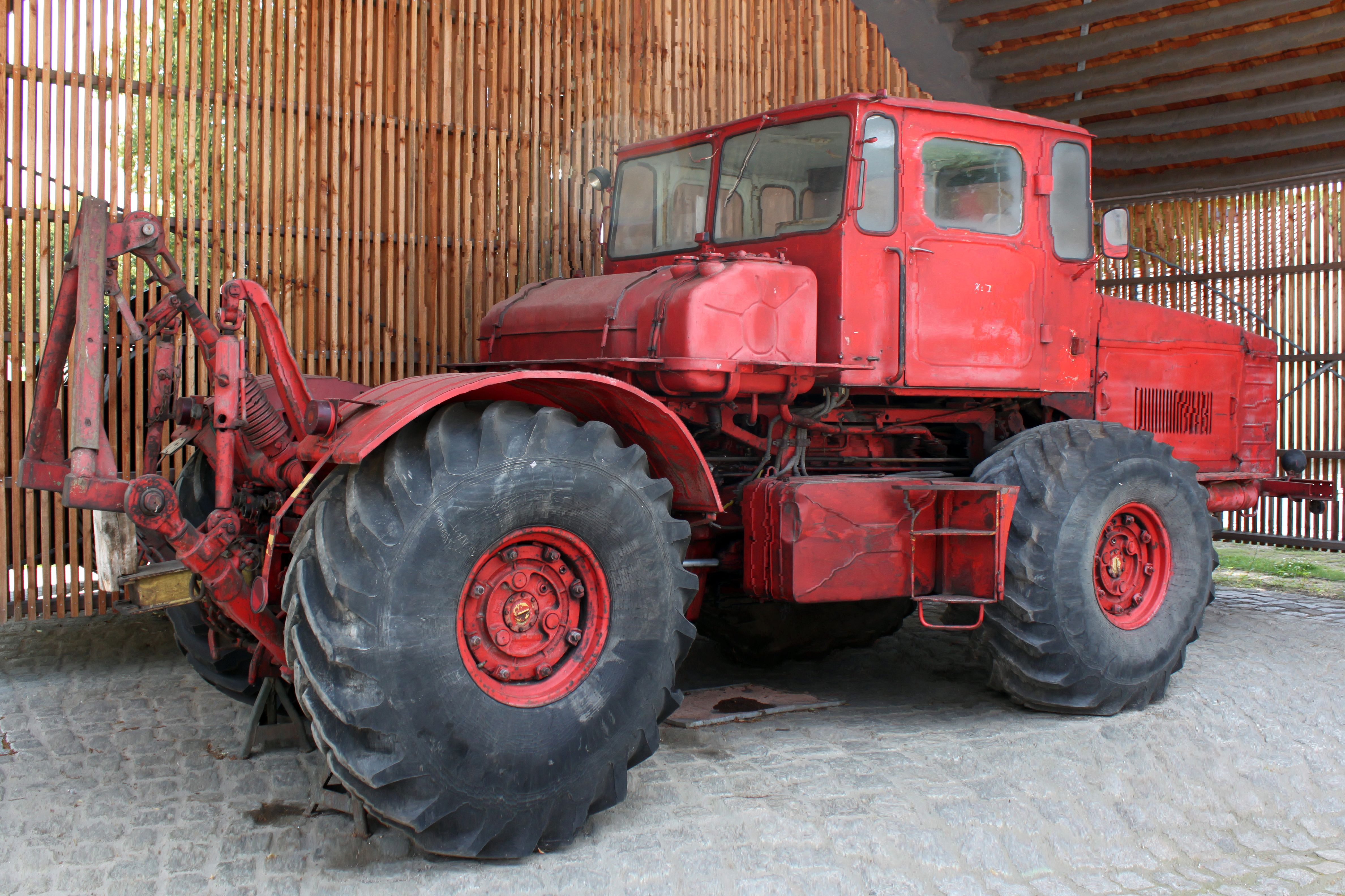 Kirowets K700, built 1970 (Agricultural Museum Wandlitz, Brandenburg, Germany)